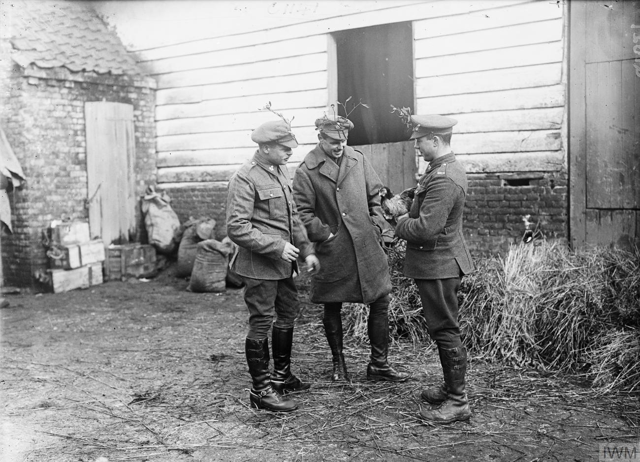 Christmas on the Western Front, 1914-1918 Men of the 20th Hussars with a chicken which they have purchased for their Christmas dinner, Bailleul, December 1916. The soldiers each have mistletoe attached to their caps.